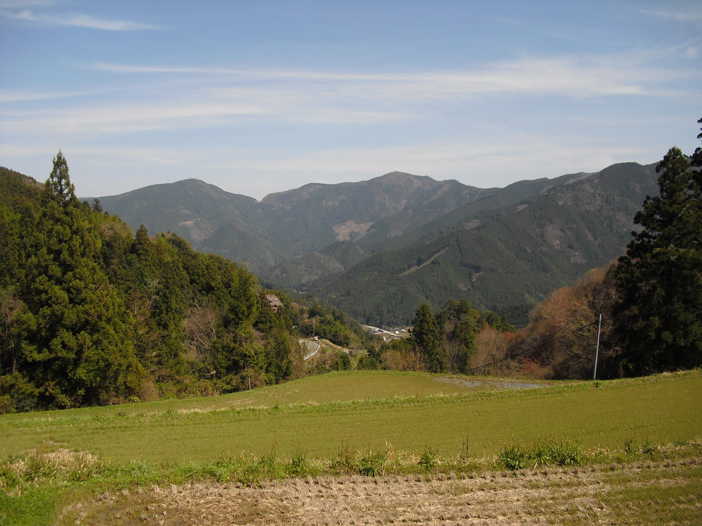 Mount Kuishi (Kuishi-yama) as seen from the WNW.